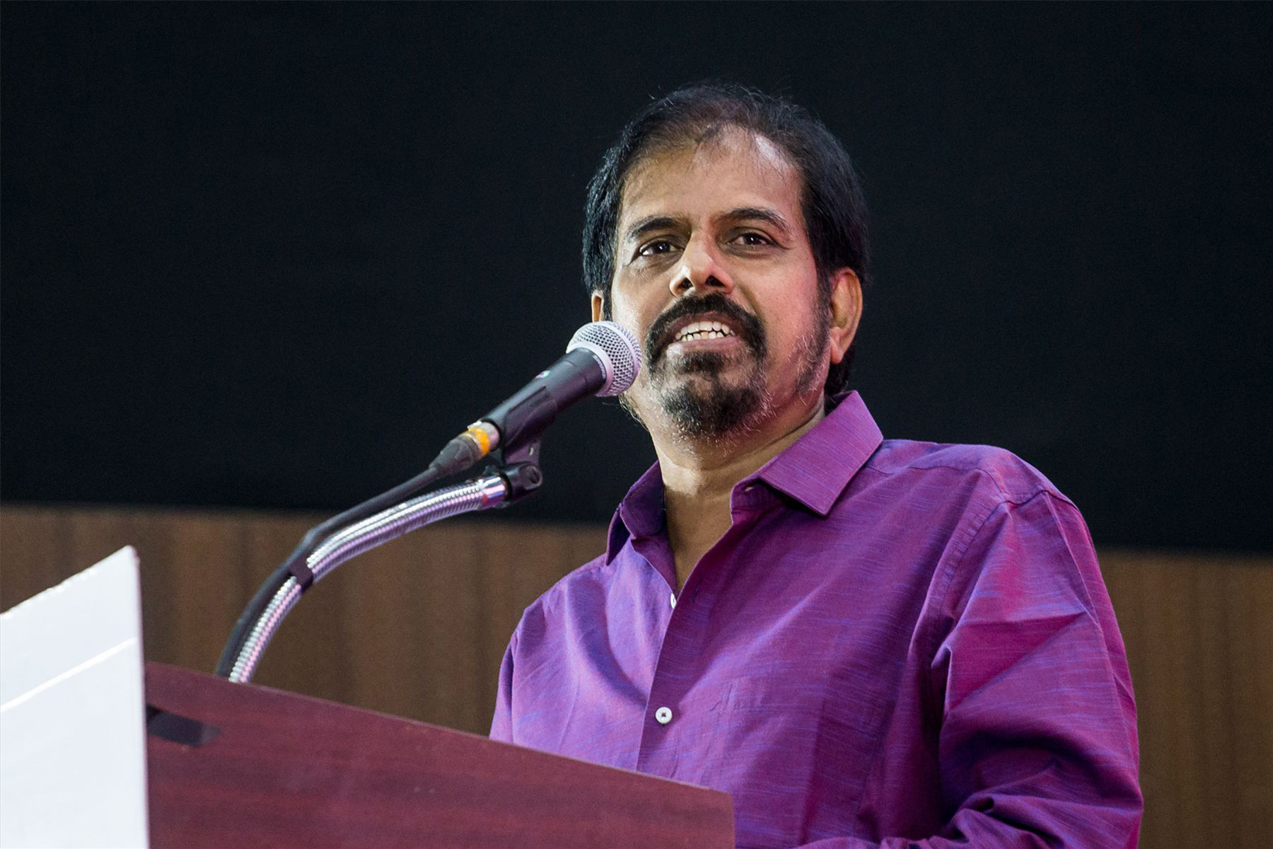 RK Selvamani At The Irumbuthirai Success Meet